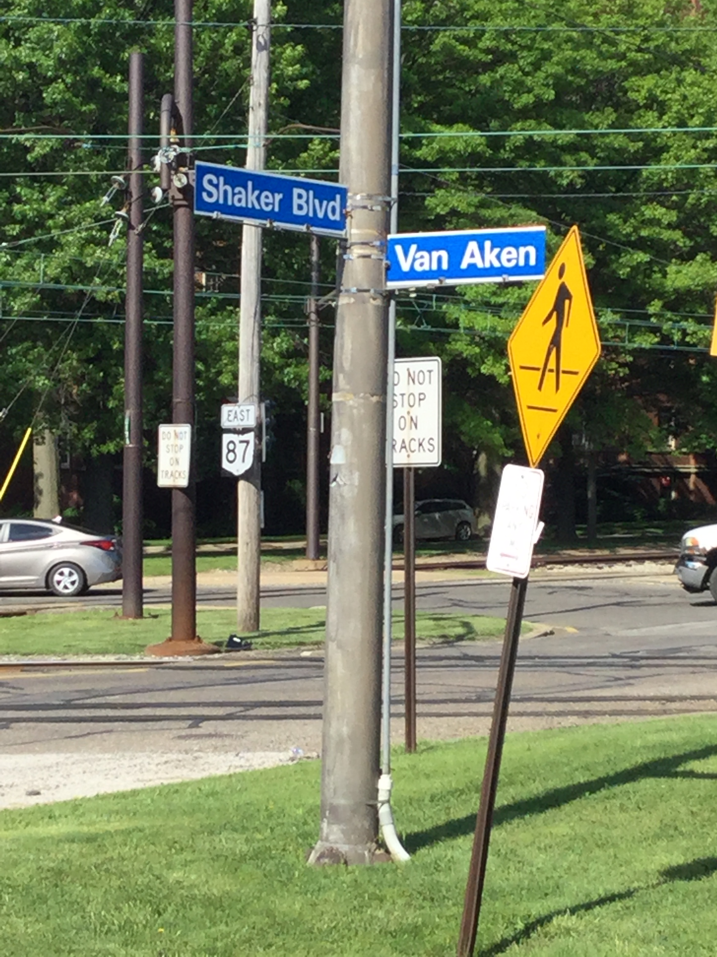 Street signs for Shaker and Van Aken Boulevards.